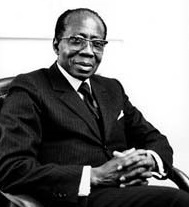 Leopold Sedar Senghor